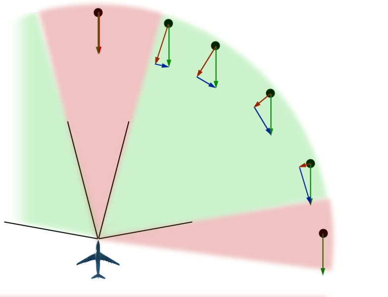 Doppler Beam Sharpening (DBS): a relative wide beam width of radar antenna can be sharpened by using the Doppler-frequency